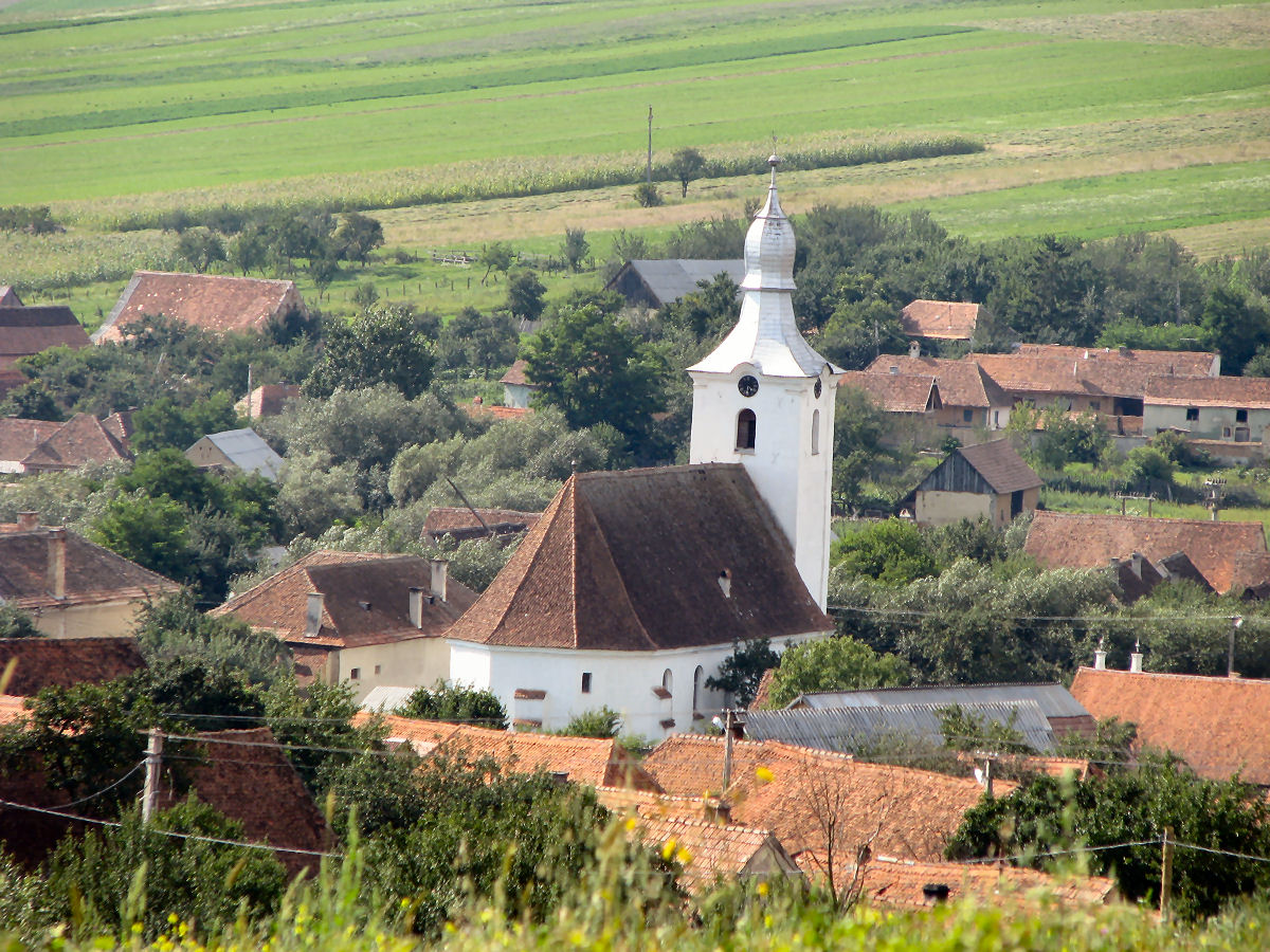 Reformed church in Aita Seacă (hu. Szárazajta), Covasna County, Transylvania